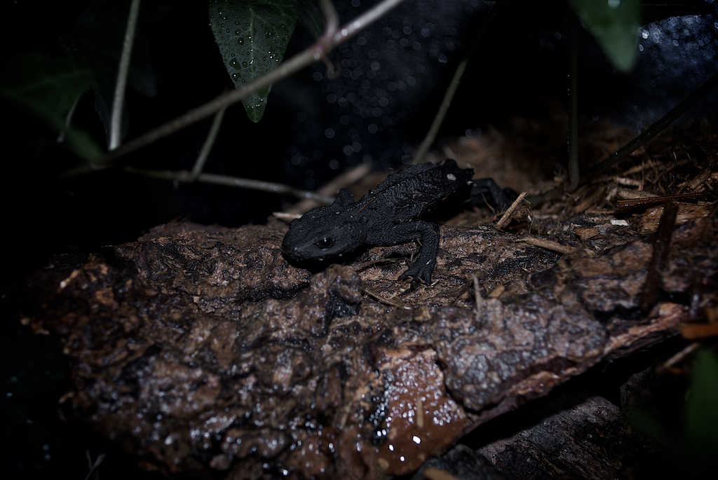 Journal Here